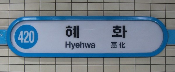 Hyehwa Station